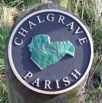 Chalgrave Parish Sign